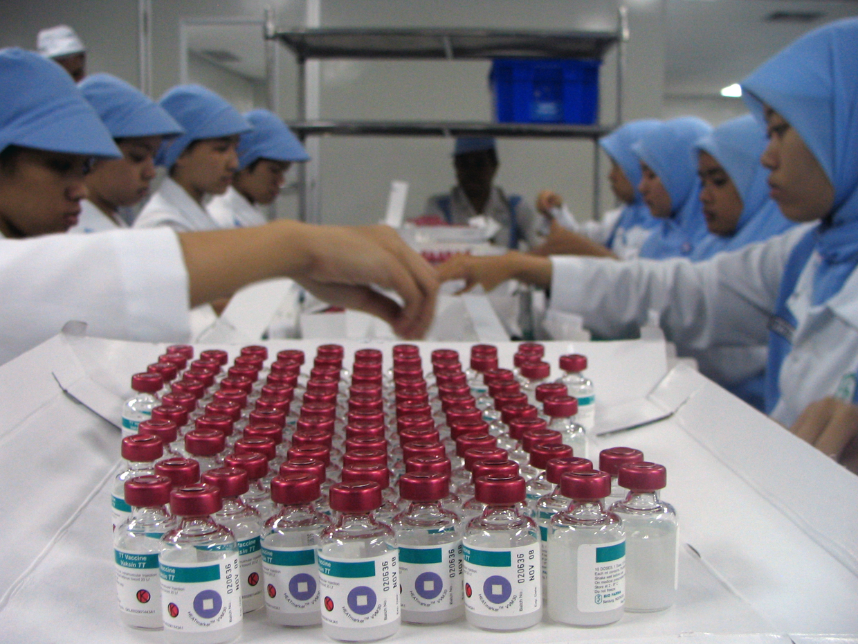 Lab workers in the Bandung BioFarma facility in Indonesia examine vials that have vaccine vial monitor technology incorporated into their labels. BioFarma, Bandung, Indonesia, February 2017